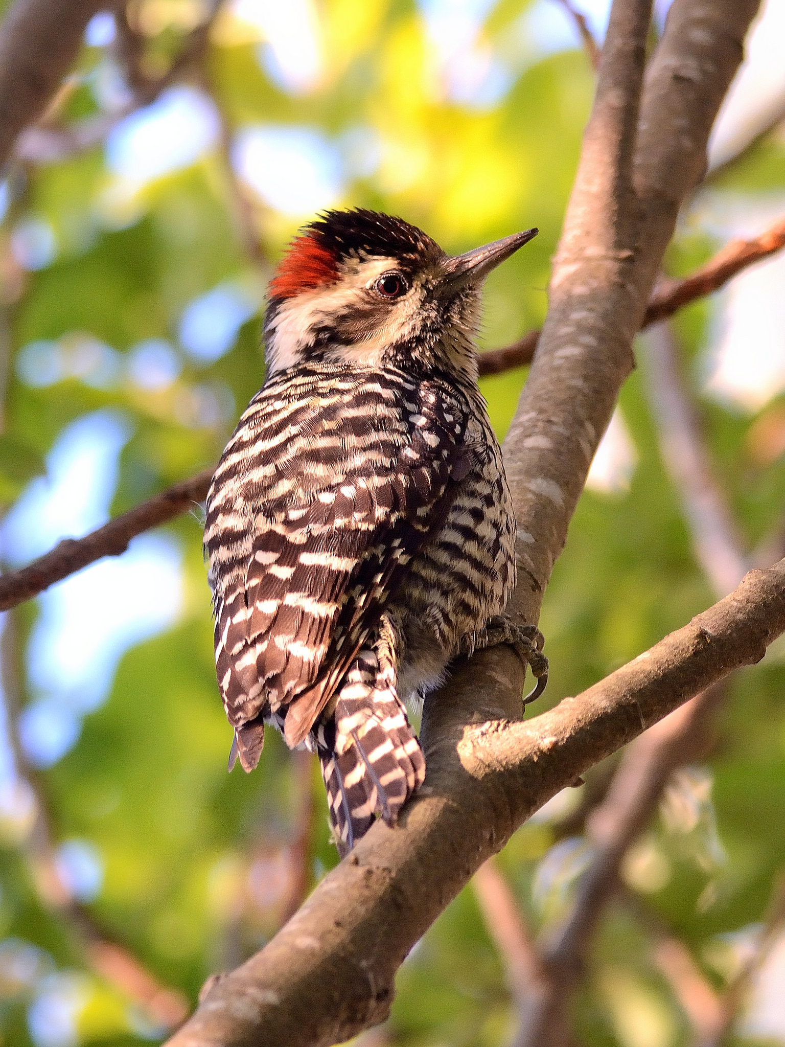 Carpinterito, Bío Bío, Chile